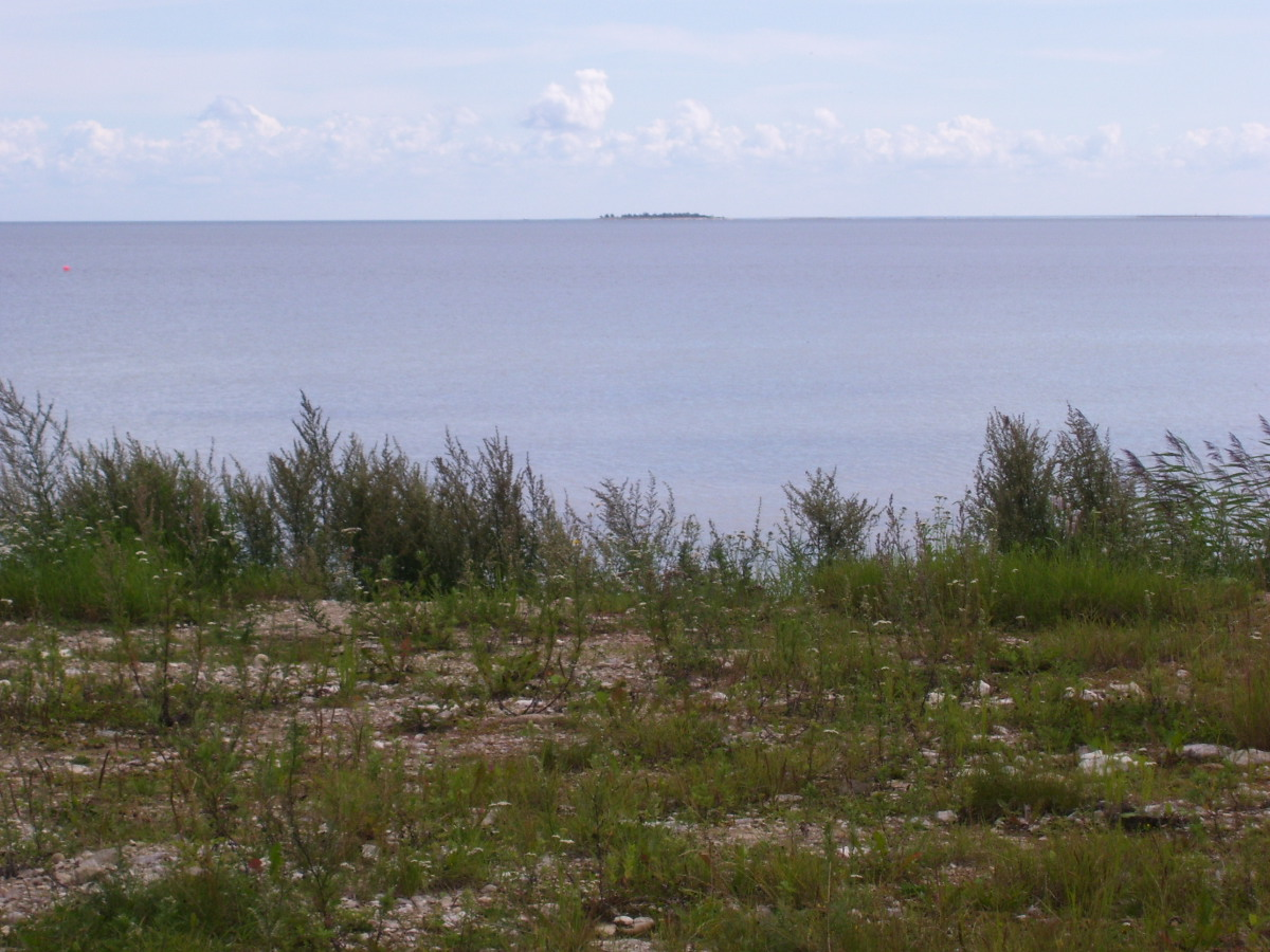 islet of Vissulaid, view from the port of Kärdla (Estonia)